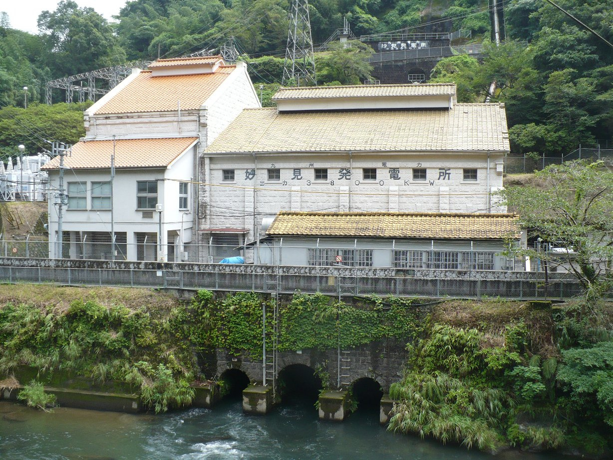 Myoken hydropower station on Amori river, Kirishima, Kagoshima, Japan.